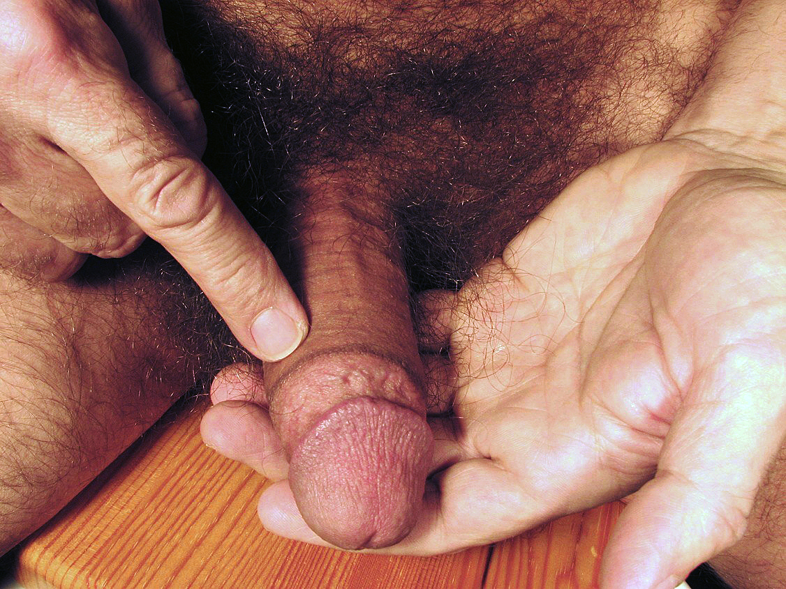 Distinctive brown ring scar on adult penis resulting from neonatal circumcision using the Gomco clamp method, as described under the subheading "Prevalence" in the Wikipedia article titled "Gomco clamp."